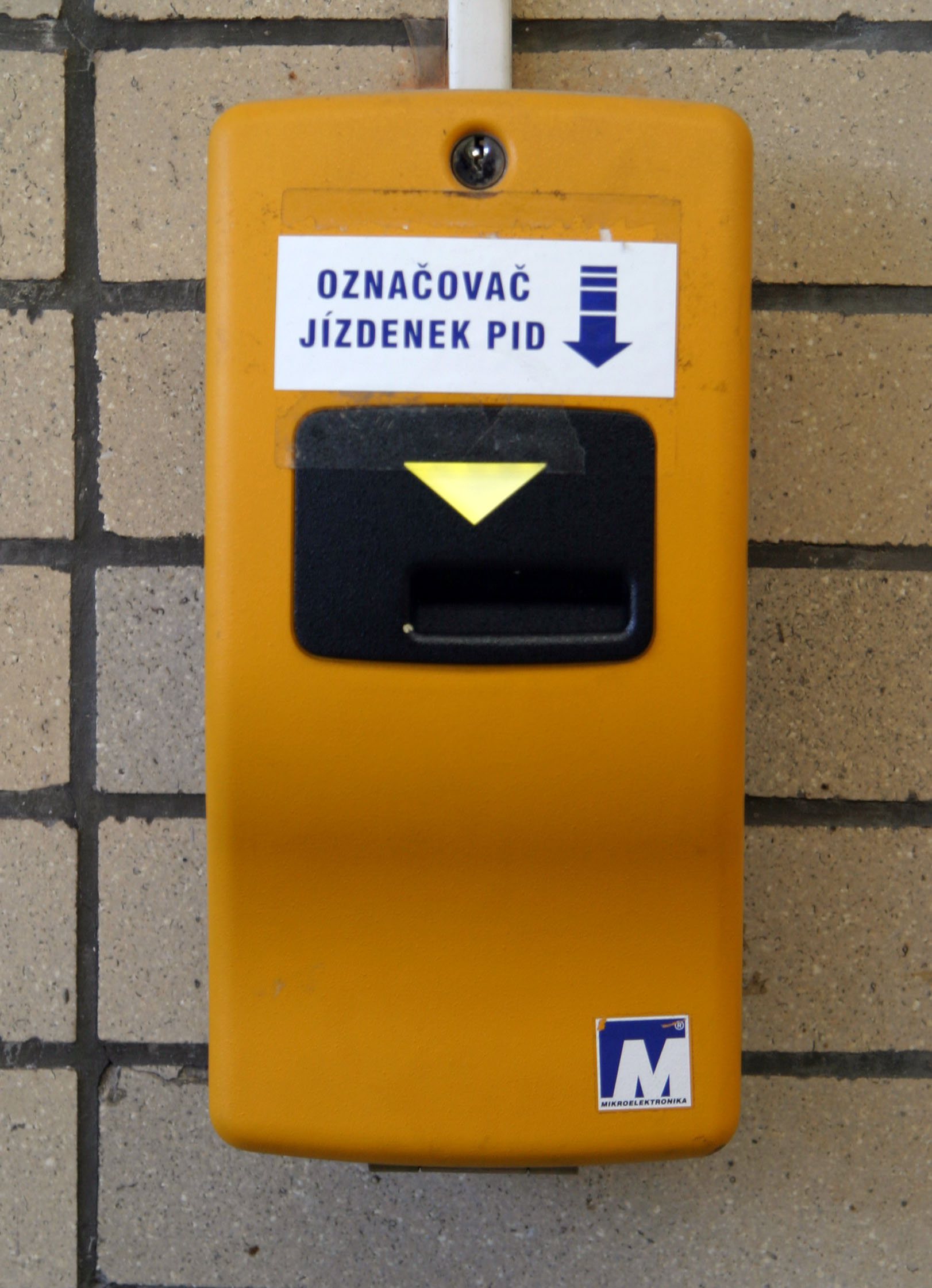 Tickets designator at train station Praha Masarykovo nádraží . Autor: Petr Vilgus